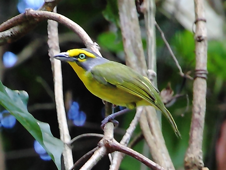 Slaty-capped Shrike-Vireo at Apiacás - MT - Brazil